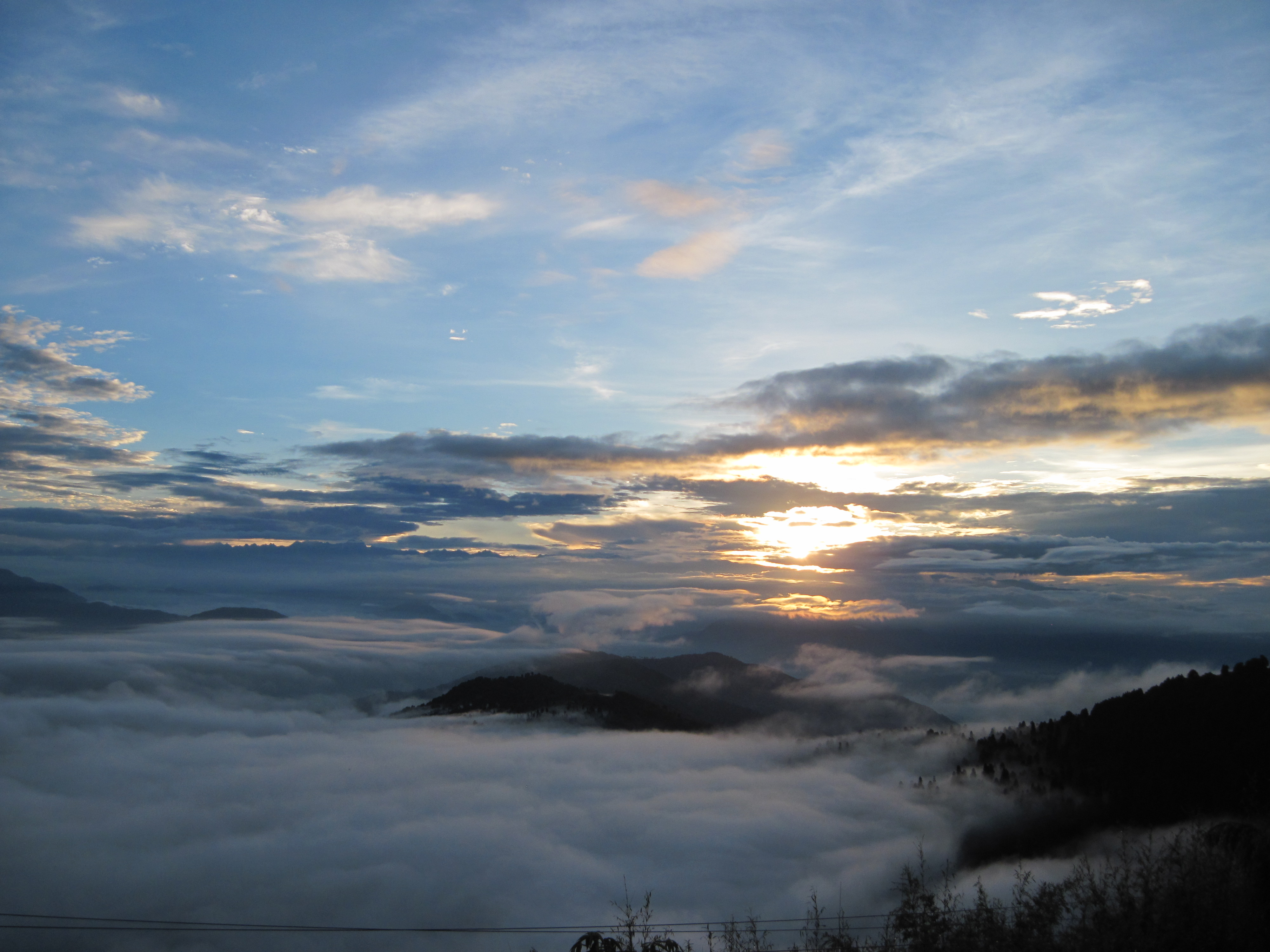 sunrise from tiger hill. a cloud covered scene